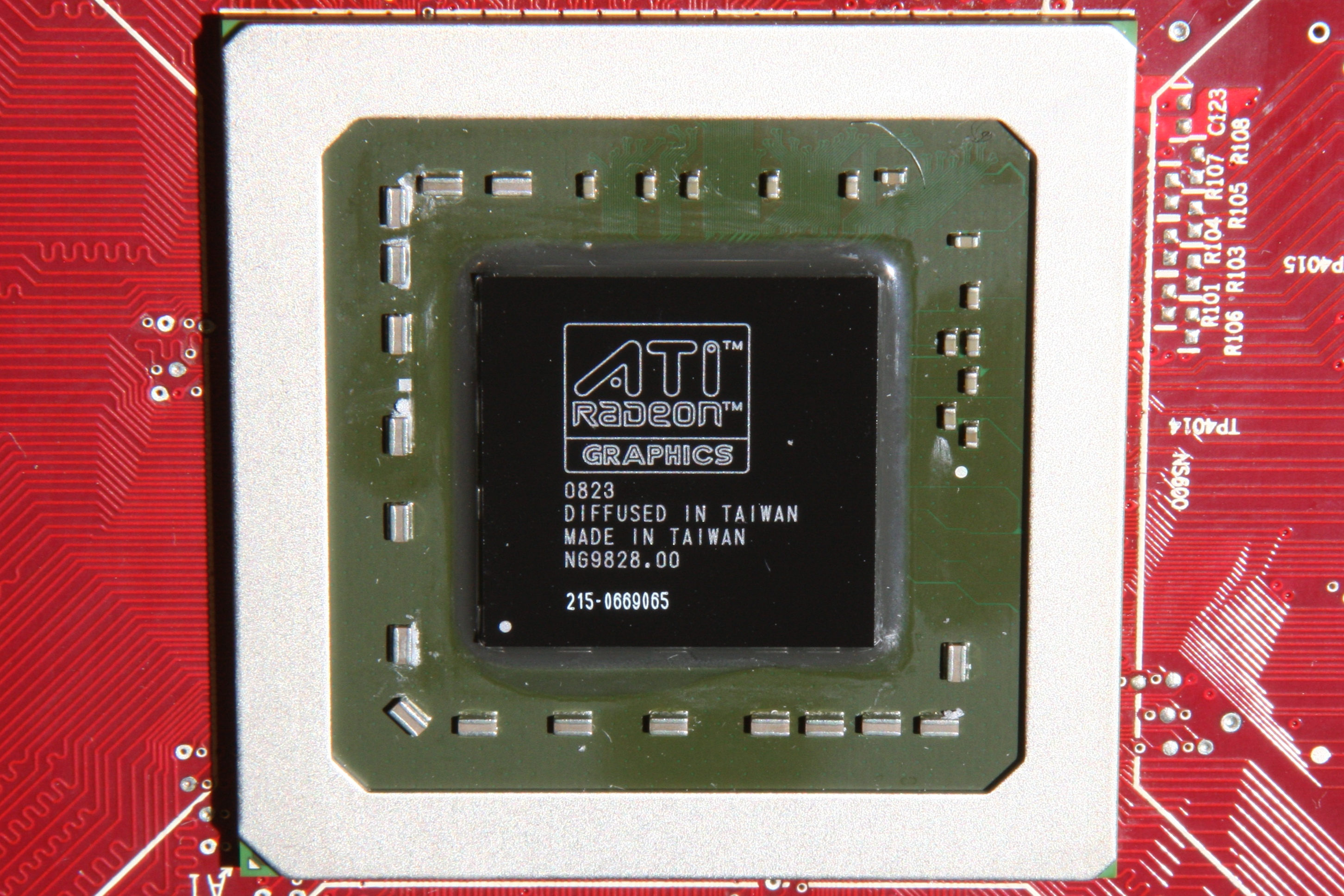 ATI RV770 GPU on a HD4850 graphic device